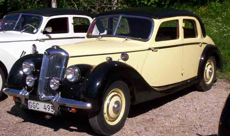 Riley RMA 1½-Litre 4-Door Saloon 1949